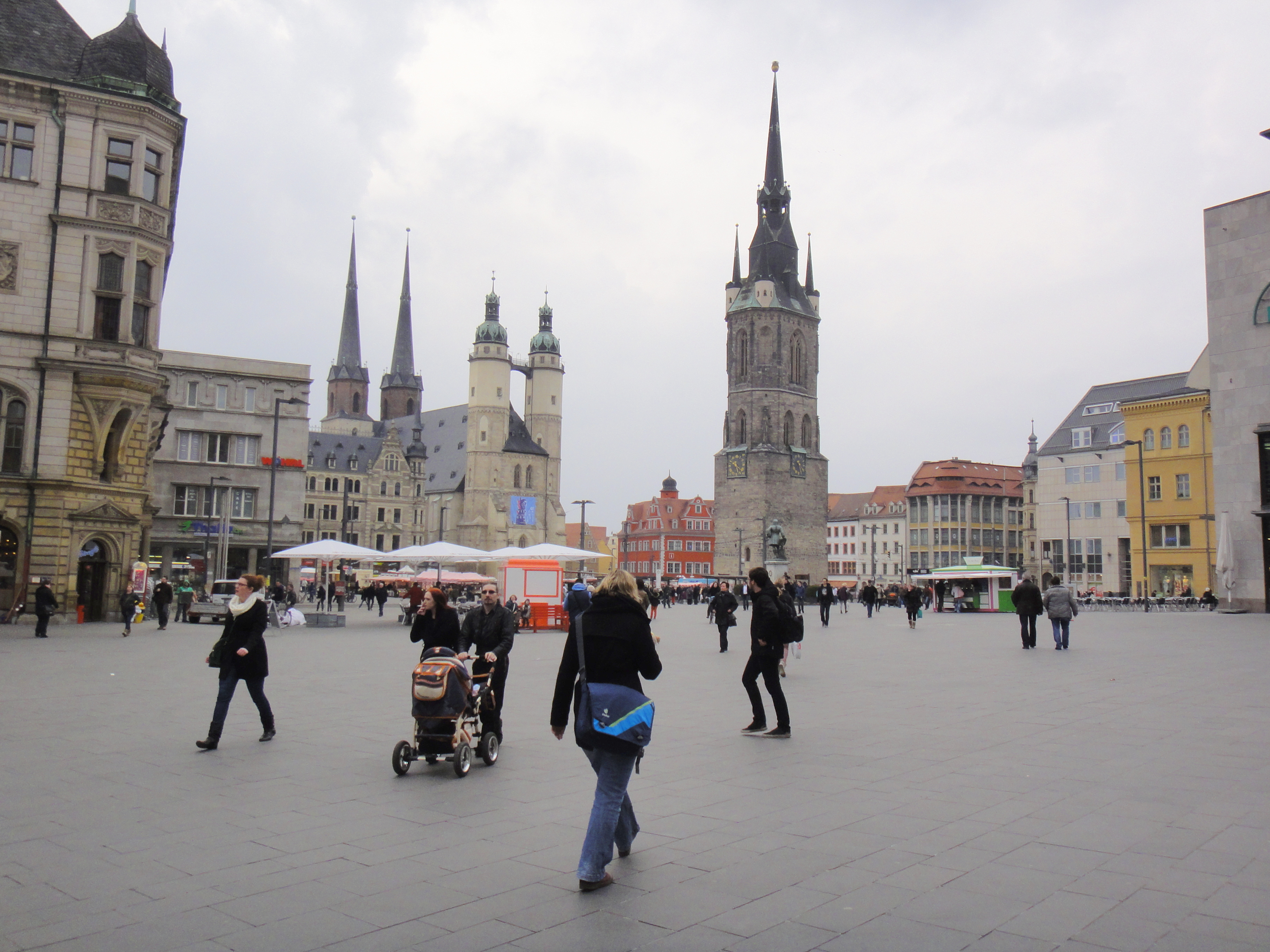 Market on the market place, Halle